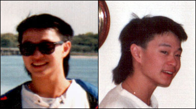 Mullet closeup from 1992.